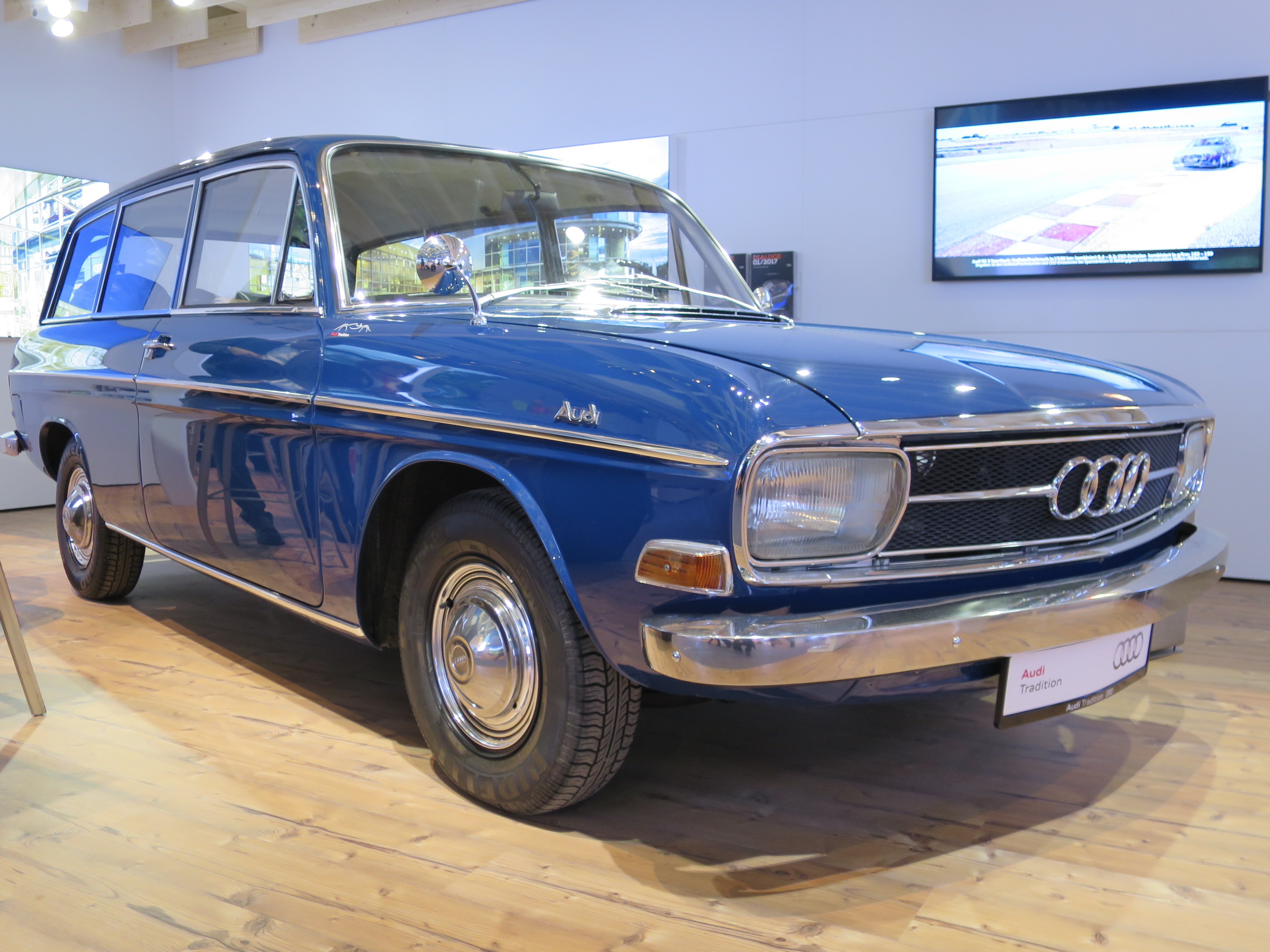 Audi 80 Variant (1967) ITB 2017.